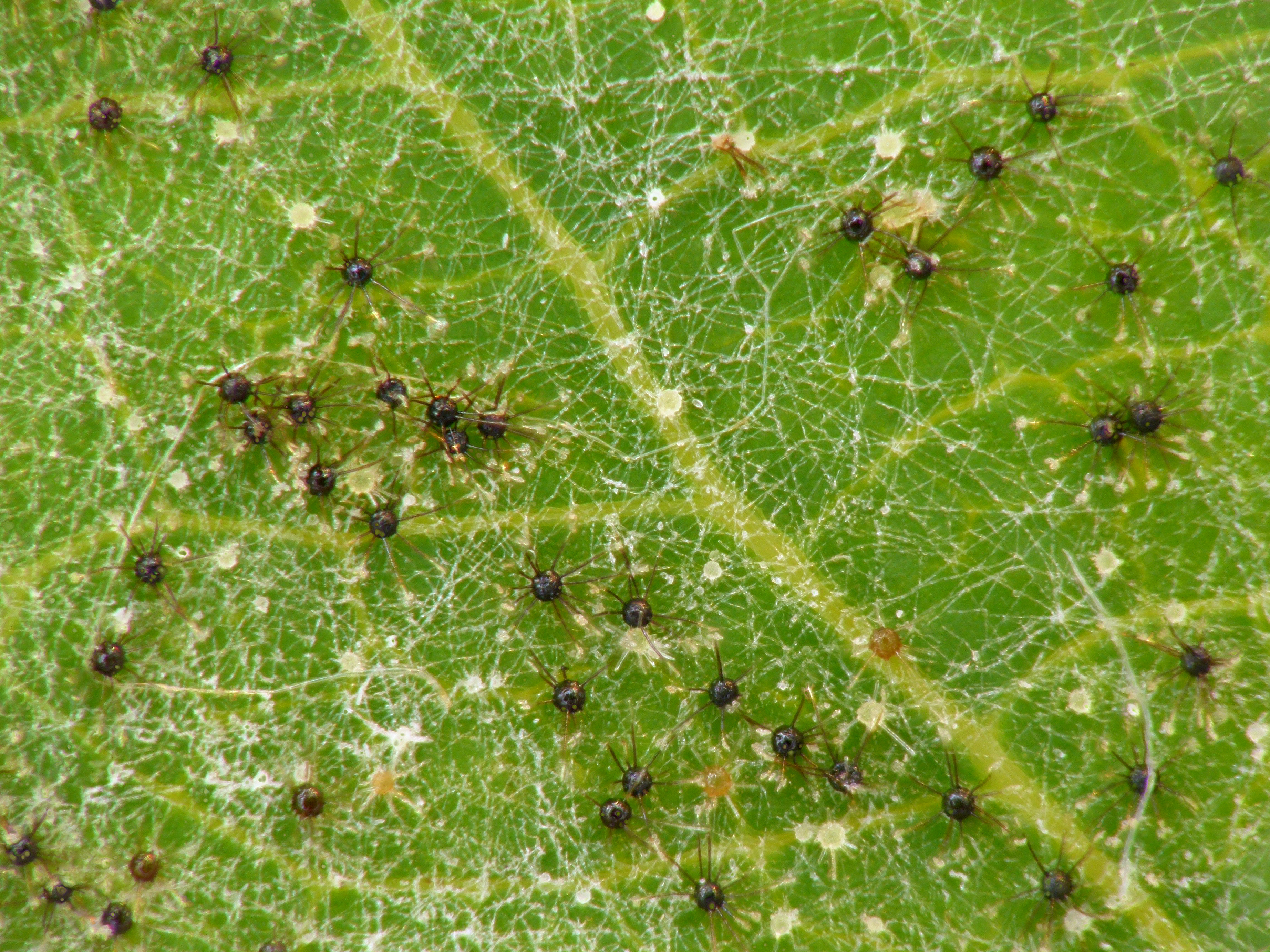 Spider mites at close magnification